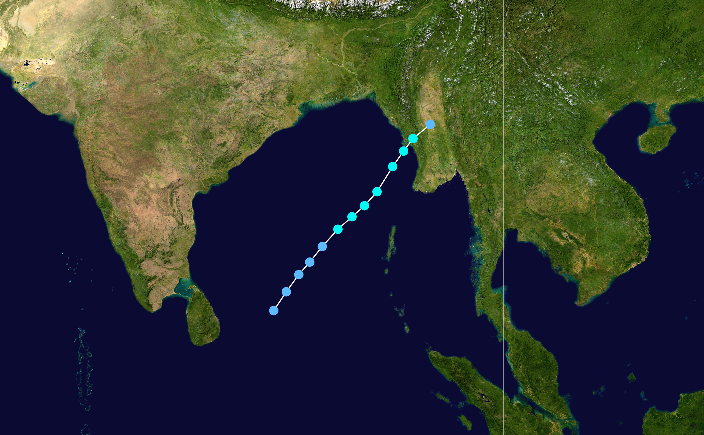 Track map of Cyclonic Storm Maarutha of the 2017 North Indian Ocean cyclone season. The points show the location of the storm at 6-hour intervals. The colour represents the storm's maximum sustained wind speeds as classified in the Saffir–Simpson scale (see below), and the shape of the data points represent the nature of the storm, according to the legend below. Saffir–Simpson scale Tropical depression≤38 mph≤62 km/h Category 3111–129 mph178–208 km/h Tropical storm39–73 mph63–118 km/h Category 4130–156 mph209–251 km/h Category 174–95 mph119–153 km/h Category 5≥157 mph≥252 km/h Category 296–110 mph154–177 km/h Unknown Storm type Tropical cyclone Subtropical cyclone Extratropical cyclone / Remnant low / Tropical disturbance